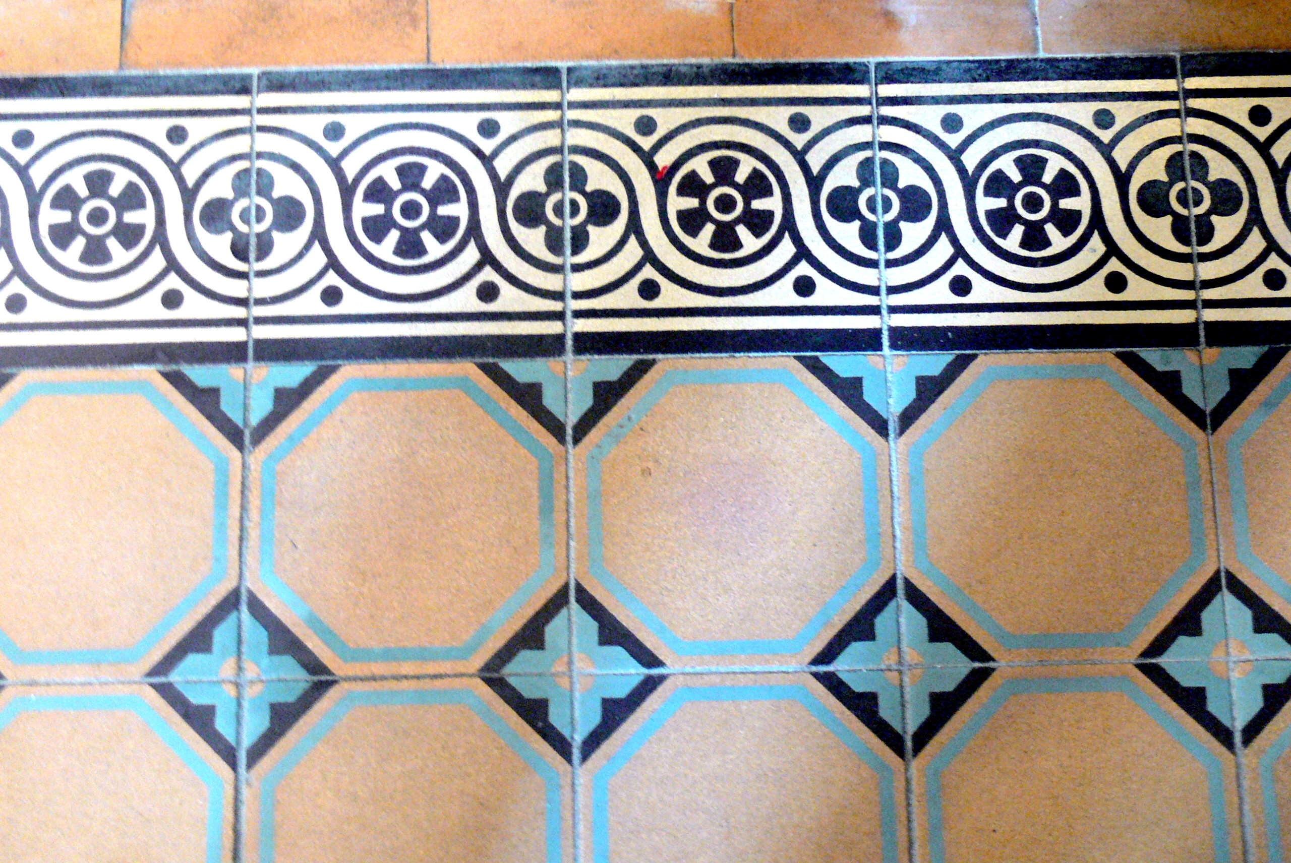 Niederkappel ( Upper Austria ). Saint Andrew parish church ( 1895 ) - Floor tiles.